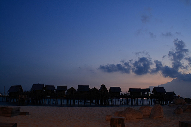 Song of the Sea - stage Camera: Canon EOS 400D Digital License on Flickr (2011-01-07): CC-BY-SA-2.0 Flickr tags: Singapore, Trip, July, 2008